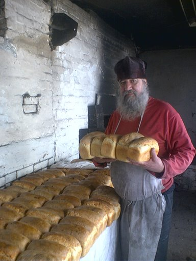 Monk Bogdan baking bread at Konevsky Monastery.